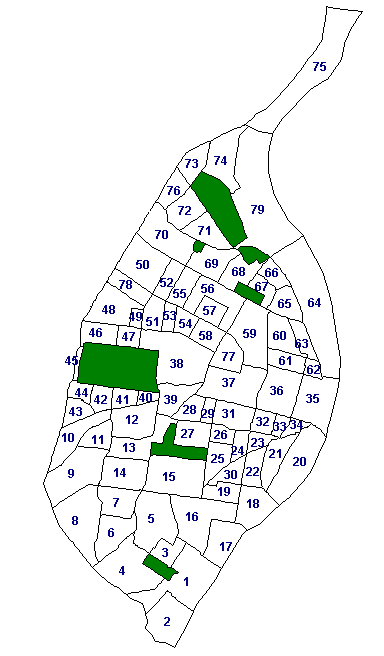 Map of St. Louis Neighborhoods with numbers